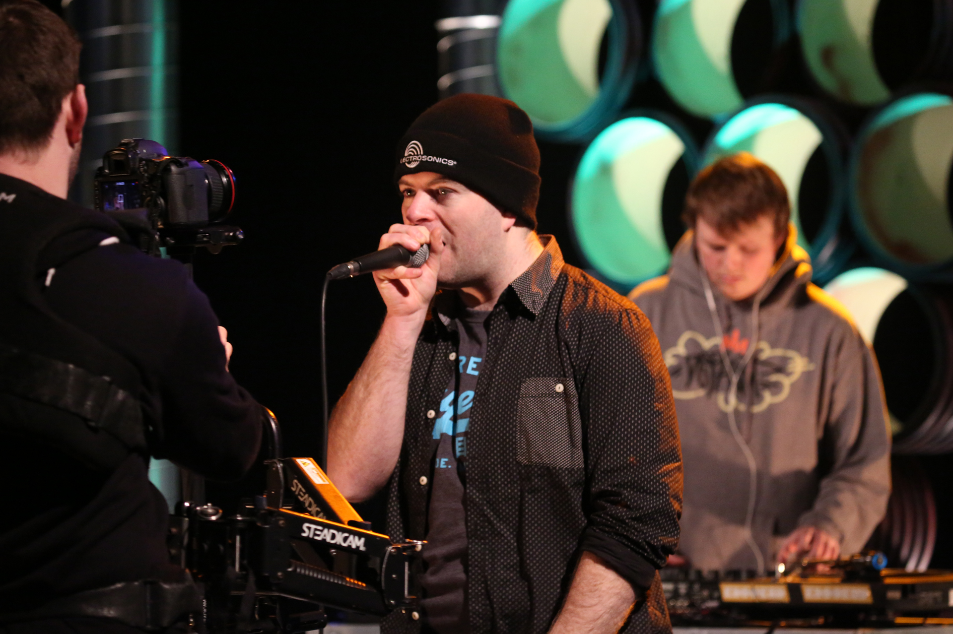 Mr Phormula (Ed Holden). A Welsh band.